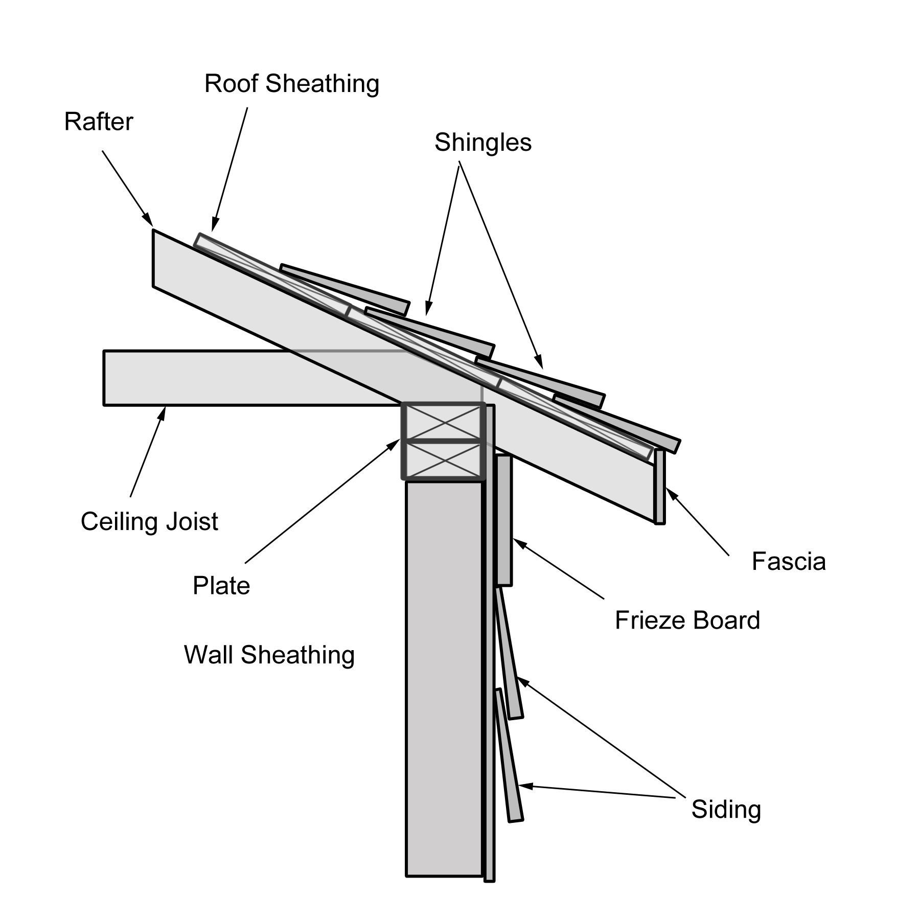 A diagram of an open cornice